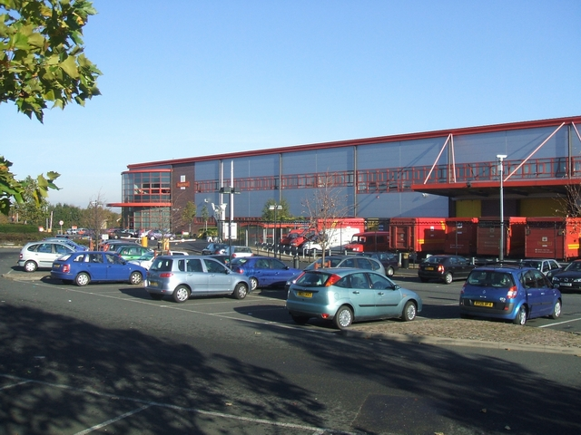 Royal Mail Northwest Midlands Mail Centre This centre handles the mail from a wide area including Shrewsbury, Stoke, Telford, Walsall and Wolverhampton.